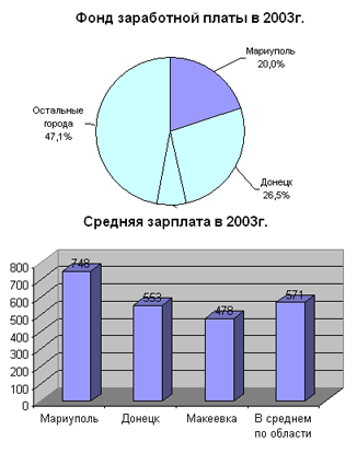 Table of Mariupol Pay